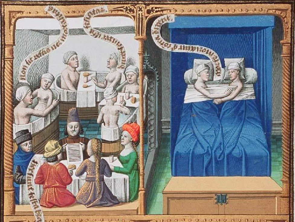 Augustine, La Cité de Dieu (Vol. I). Translation from the Latin by Raoul de Presles. Pagan customs: men and women at a meal and in bath; brothel-scene (Viciousness) (1st of 2)*fol. 69v c. 1475